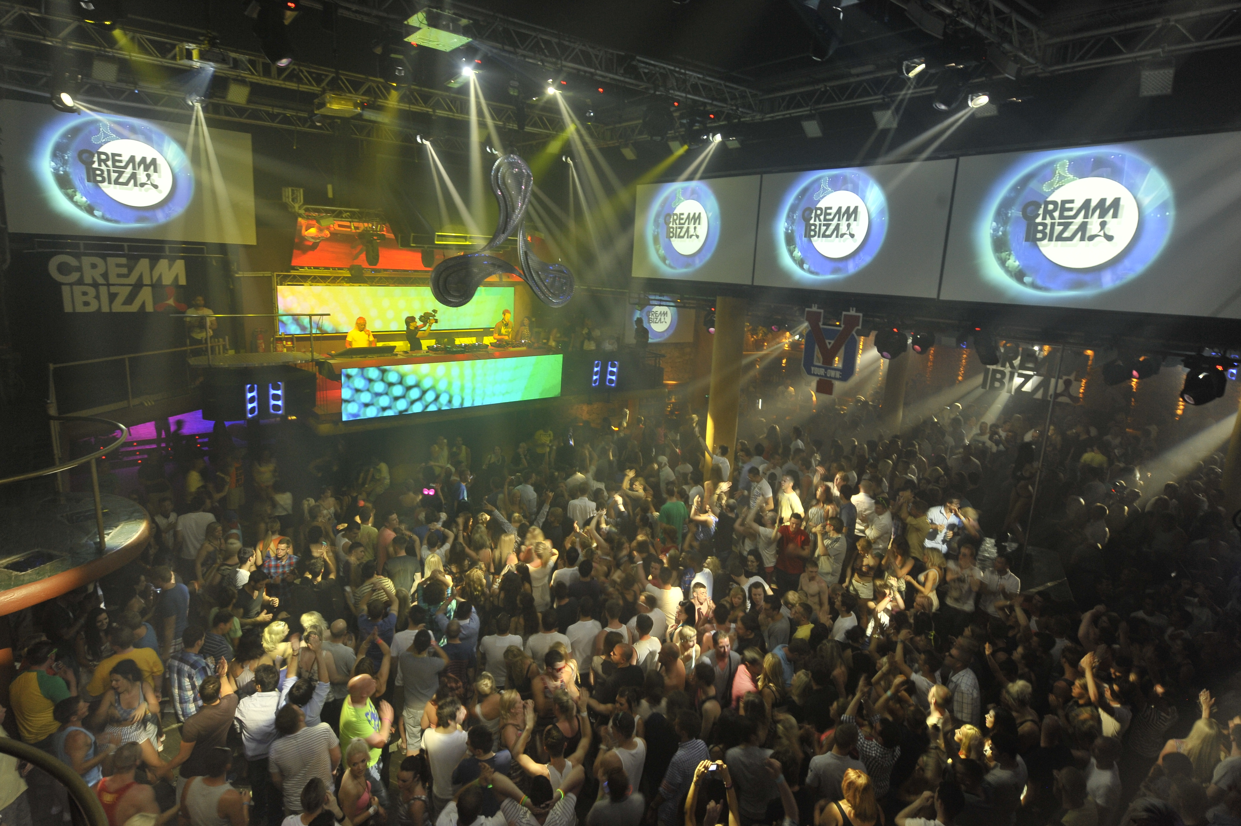 Amnesia - Cream Opening Party. More pics at